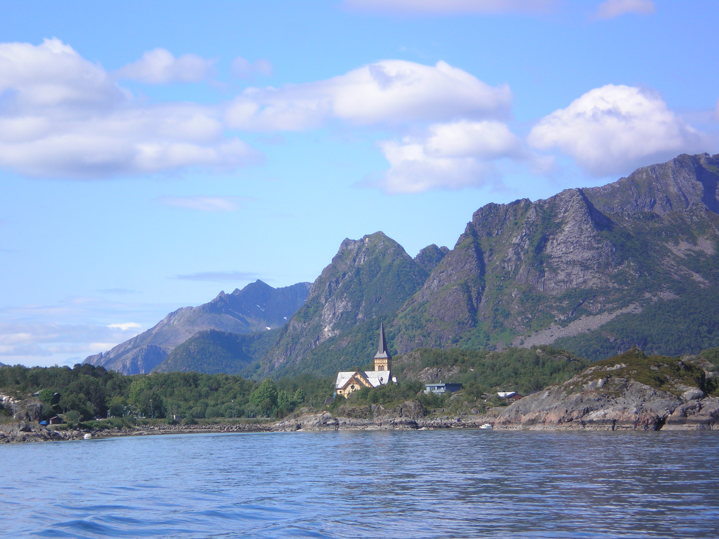 Church in Kabelvåg, Vågan municipality, Norway.